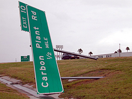 Damage from Hurricane Bret (1999) in Nueces County, Texas